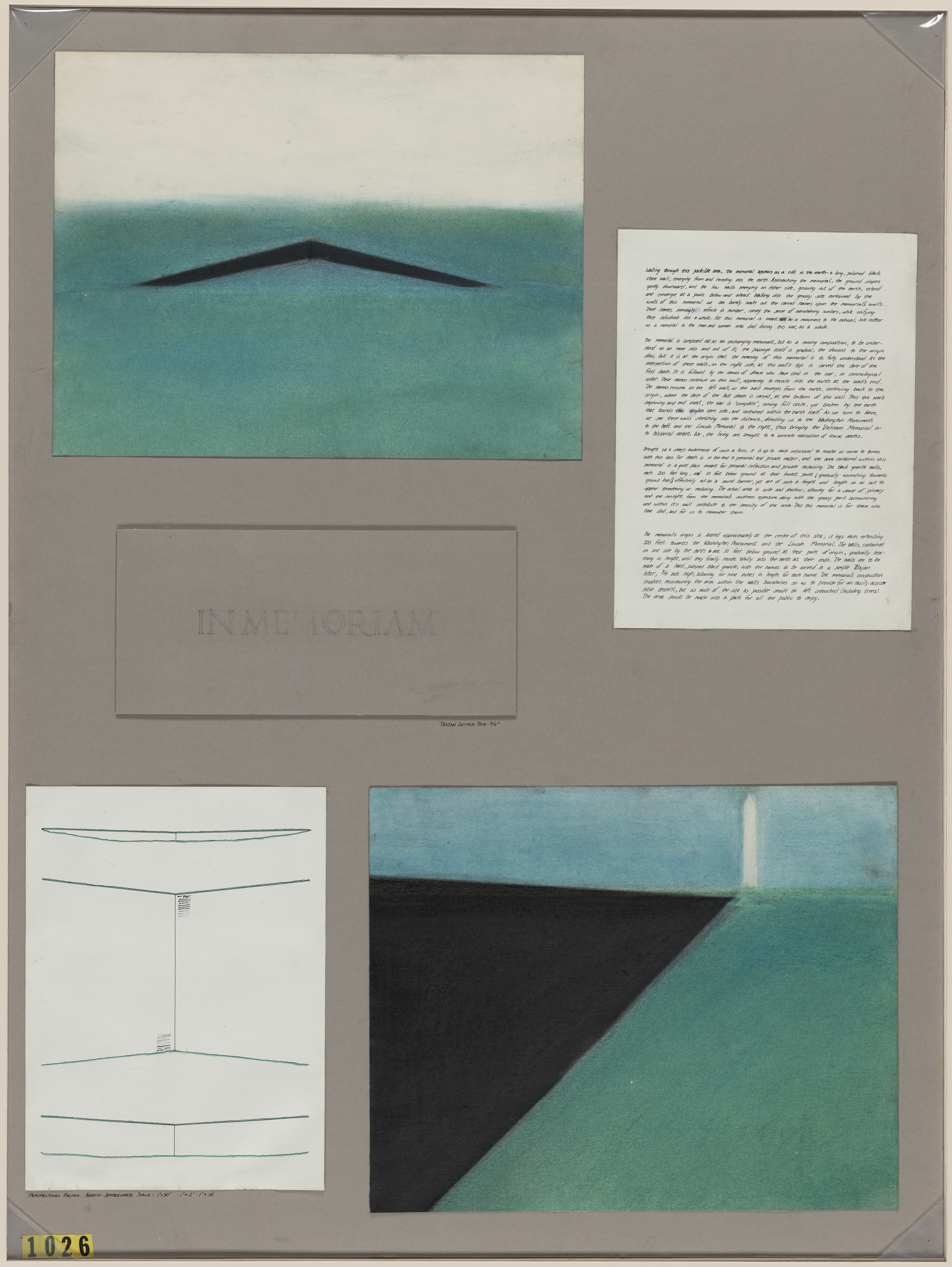 Maya Lin's original competition submission for the Vietnam Veterans Memorial in Washington, D.C. Architectural drawings and a one page written summary.